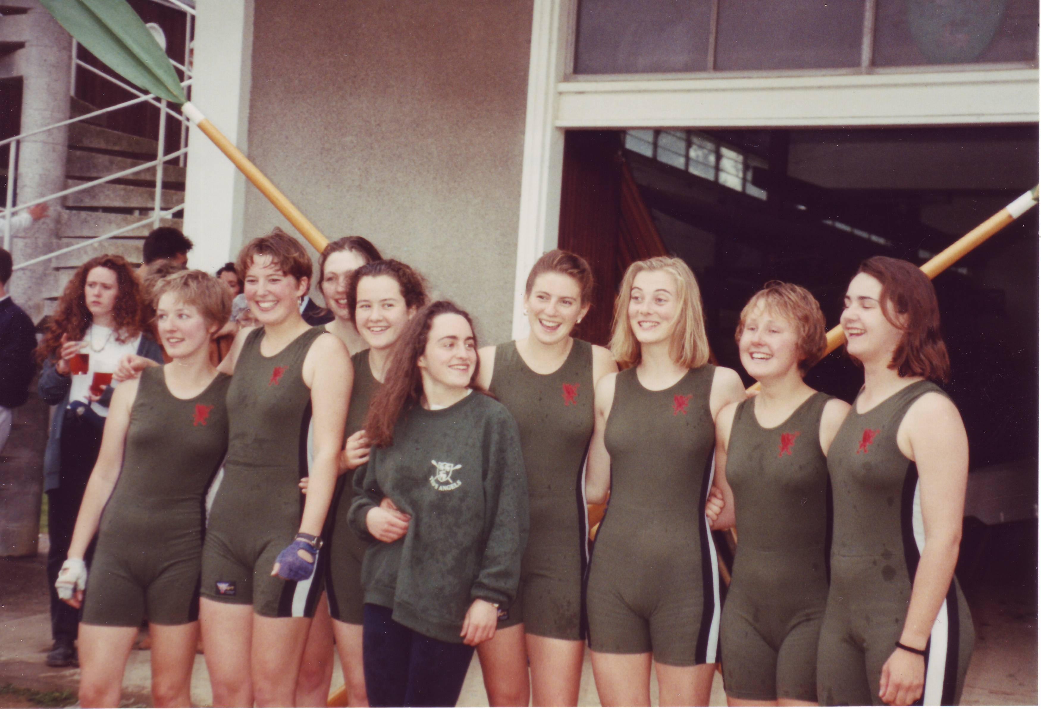 The Women's 1st VIII of Jesus College Boat Club on Saturday of Eights Week 1993. The crew had just won their "blades", following on from winning their blades in Torpids in 1993